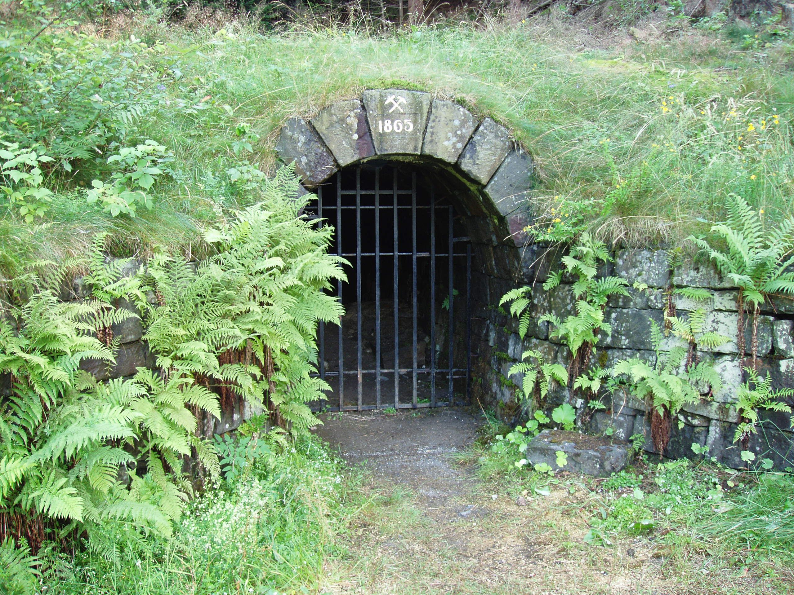 Adit entrance of the gallery Maassen of the mine Lautenthalsglück. (GER)